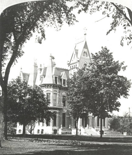 William Plankinton house in 1909, next door to John Plankinton (father) residence in Milwaukee